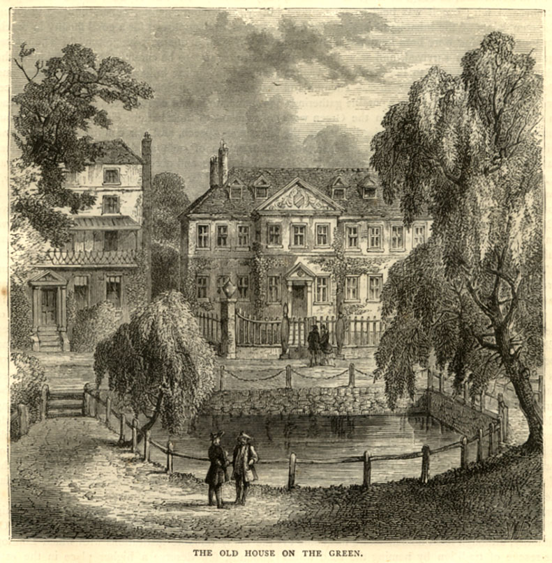 The Old House on the Green, an unsigned wood engraving (Camberwell Green, South London, England)